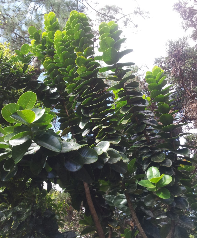 Diospyros revaughanii ebony - MonVert Arboretum